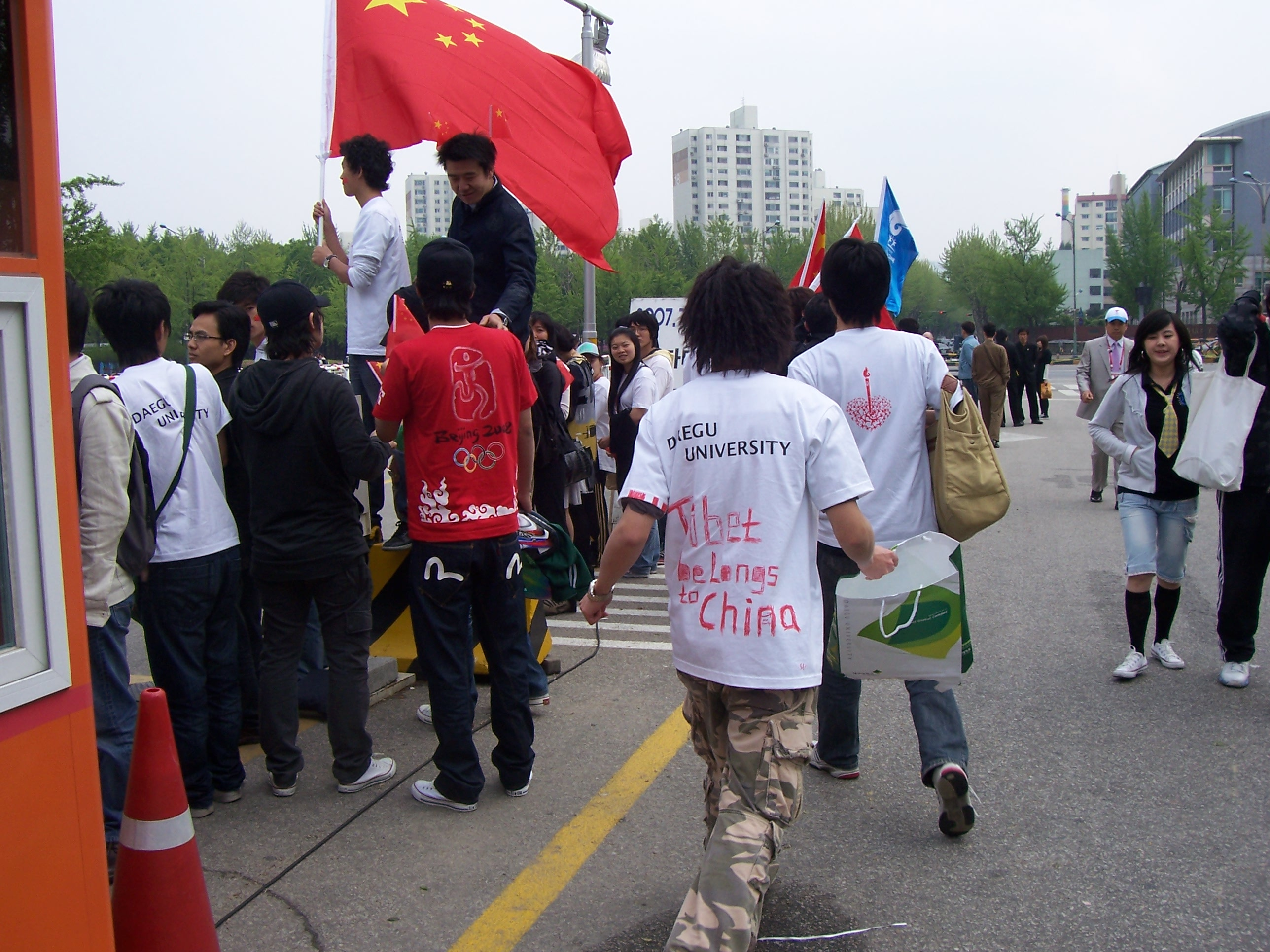 2008 Summer Olympics torch relay in Seoul